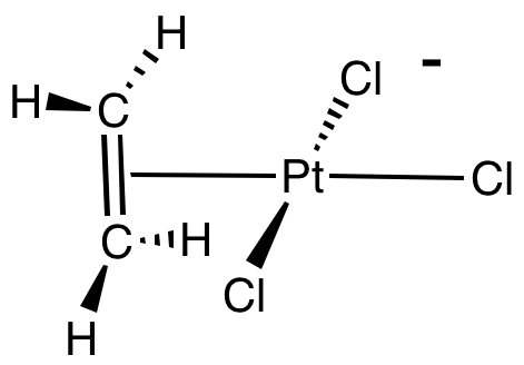 anion part of Zeise's salt